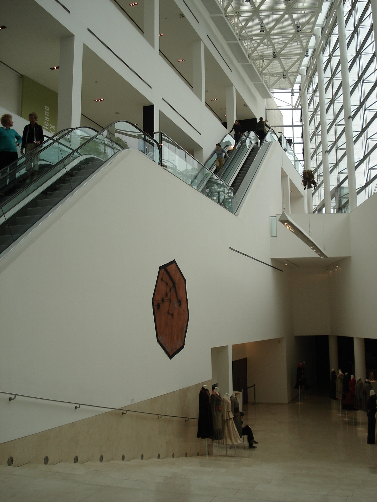 Museum